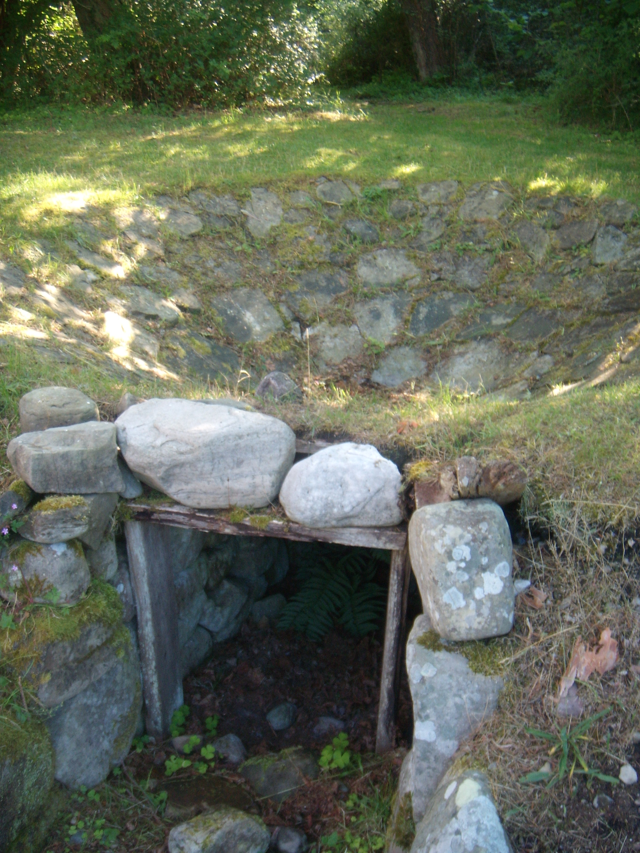 How to make tar in Skandinavia. Tar was historically produced from scots pine logs and roots in Scandinavia, using this kind of kiln, known in Swedish as "tjärdal" (literally: tar valley, tar pit).